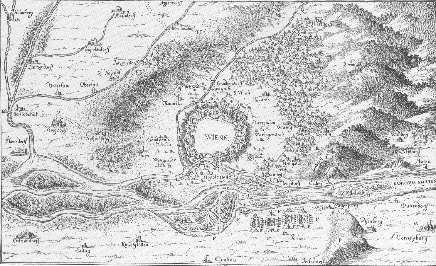 Army camp of Charles, Duke of Lorraine (Herzog von Lothringen), near Vienna, 1683, in Jedlesee locality, today part of Floridsdorf, 21. district of Vienna. Position: top southwest, bottom northeast